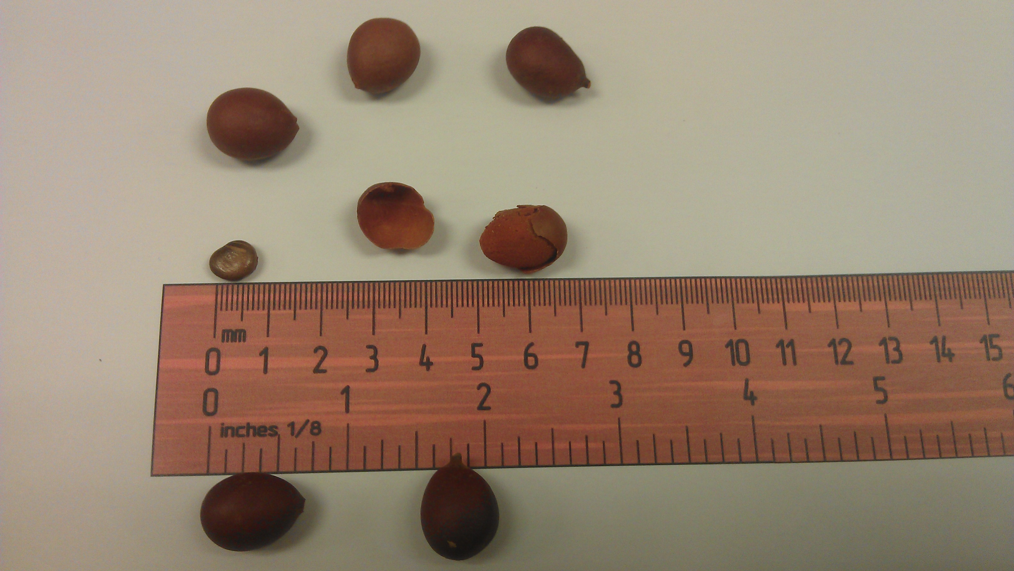 Pepeta pods and seed